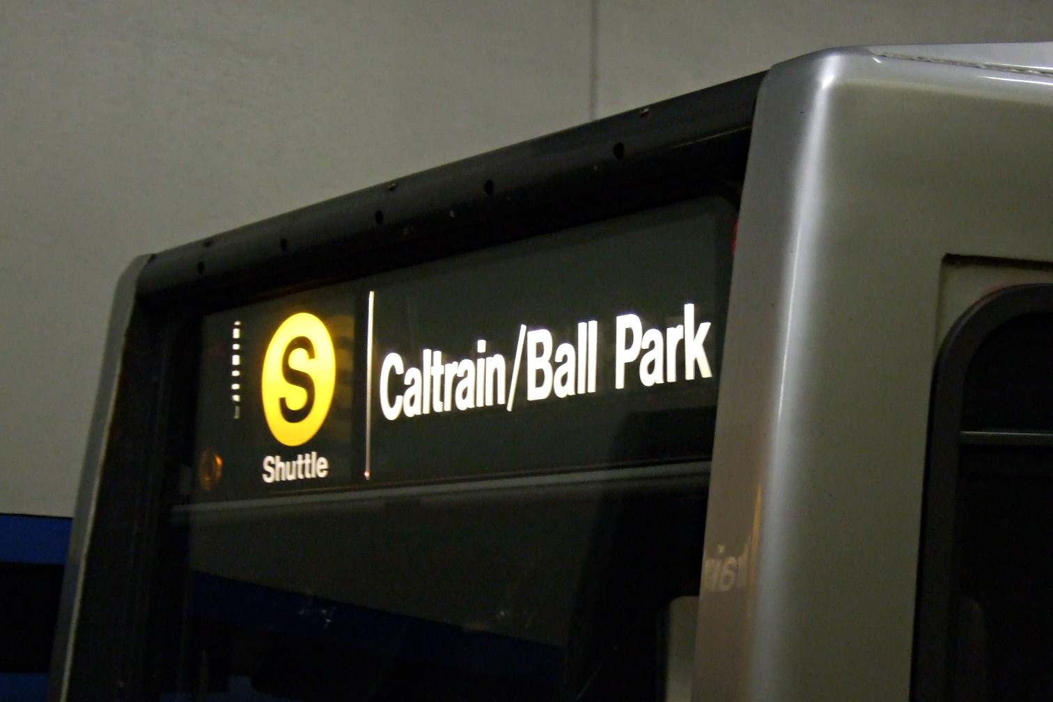 Inbound S-Shuttle providing service for the San Francisco Giants game at AT&T Park